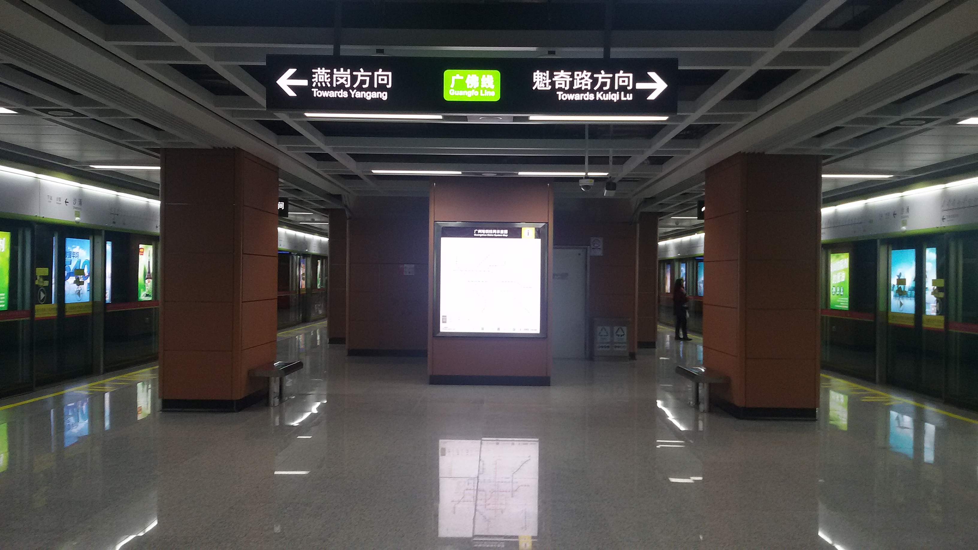 Platform for Shachong Station in FMetro.